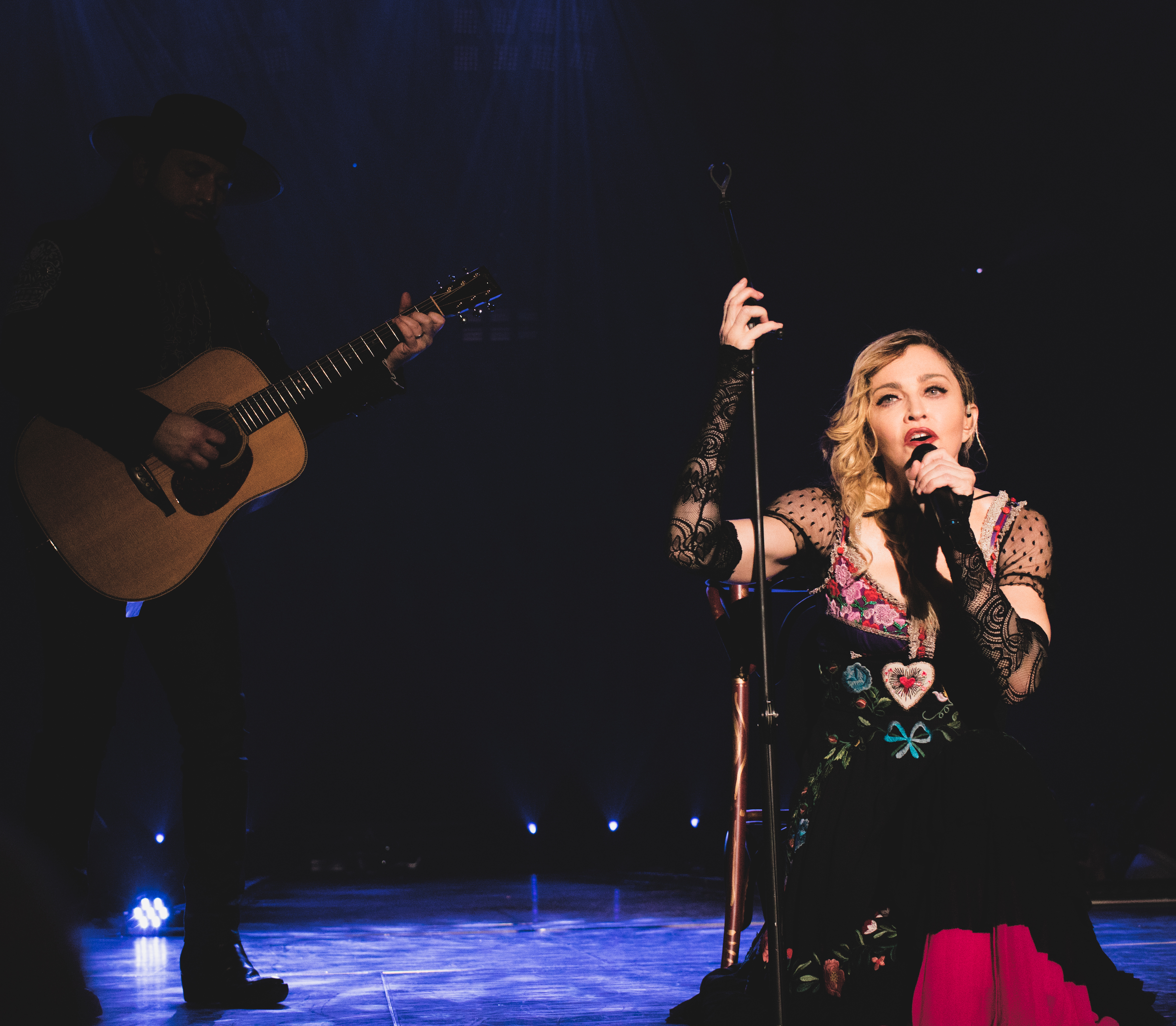 Ghosttown